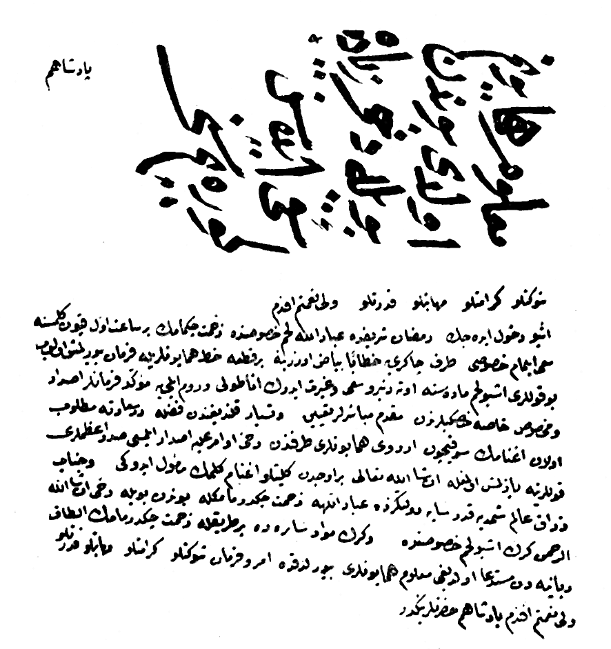 A hatt-ı hümayun written by Selim III to his Grand Vizier regarding the supply of meat to Istanbul. The Grand Vizier reports on efforts to ensure that the people of Istanbul will not lack in meat, as Ramadan is approaching. He writes that he has always strived on the the matter of meat supply, that following the Sultan's previous hatt-ı hümayun on white to have more sheep delivered to Istanbul, decrees were sent to the provinces, messengers of the court were appointed and dispatched and that people will not suffer from a lack of meat during Ramadan. Upon this memorandum, Selim III writes (on top, with a thick pen) his appreciation: "It has become my imperial knowledge. Do even more in the future. Let me see you."